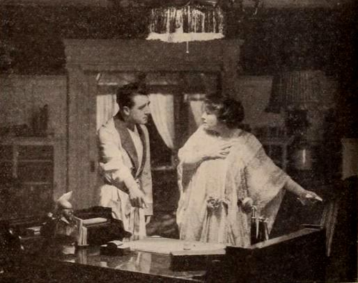 Still from the American drama film Double Crossed (1917) with Crauford Kent and Pauline Frederick, on page 24 of the September 15, 1917 Exhibitors Herald.